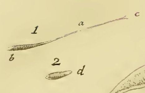 Vibrio strictus, a probable Peranema sp., as depicted by OF Muller in Animalcula Infusoria. The forked tip of the flagellum (which Muller viewed as a necklike extension of the body) is a microscope artifact, probably arising from the motion of Peranema's flagellum, which typically forms a flexible, flailing hook at tip.